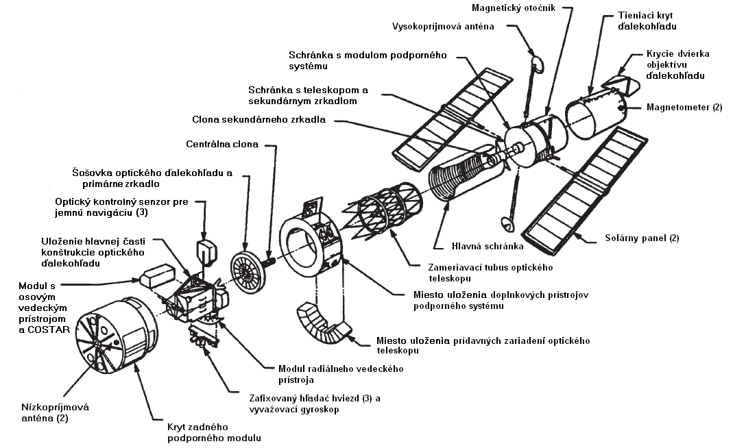 Exploded diagram of the Hubble Space Telescope in slovak